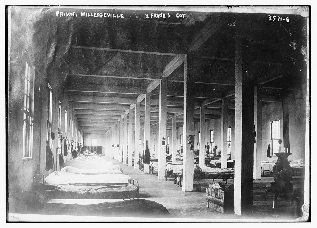 The cot belonging to Leo Frank at the Milledgeville, Georgia prison